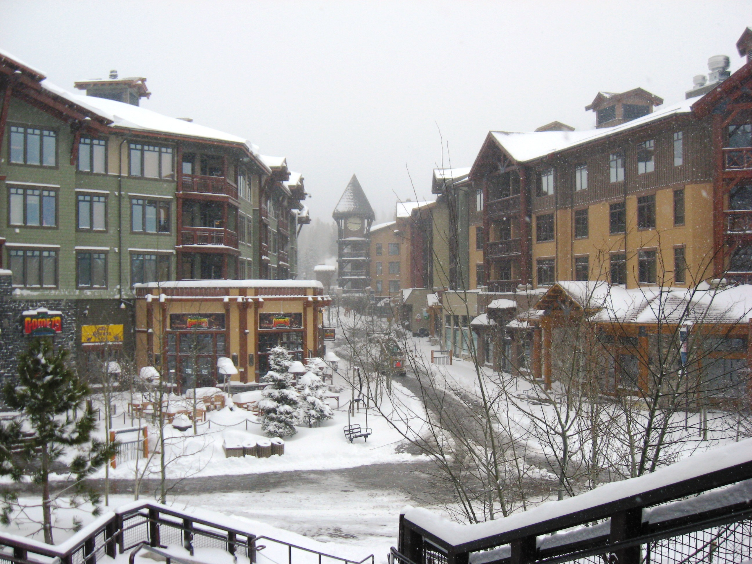 The Village at Mammoth in Mammoth Lakes, California, locally known as the Village. The Village is a triangular area surrounded by Minaret Road, Canyon Boulevard and Forest Trail, with lodges/condos, shops, restaurants and an "events plaza" where various bands perform from time to time, and Oktoberfest and Christmas events, etc., are held. The annual Christmas Tree Lighting Ceremony, during which Santa Claus "arrives" in town, is held at the end of November. For skiers and snowboarders (and others who simply want to "check out" the ski area), there is a complimentary gondola (the Mammoth Mountain Village Gondola or simply the Village Gondola) directly from the Village to Canyon Lodge[1]. Lift tickets and equipment rentals are also available at the Village, but you don't have to purchase/rent anything here in order to take the gondola. The official "season" starts in early November, but it can snow in early October and skiing is possible until the 4th of July (provided there is sufficient snow), depending on the year. Complimentary shuttles carry skiers and shoppers between the Village, outlet stores, the Visitor Center, etc. and Mammoth Mountain Main Lodge (where the mammoth statue is) during the season. This photo was taken from the gondola station.